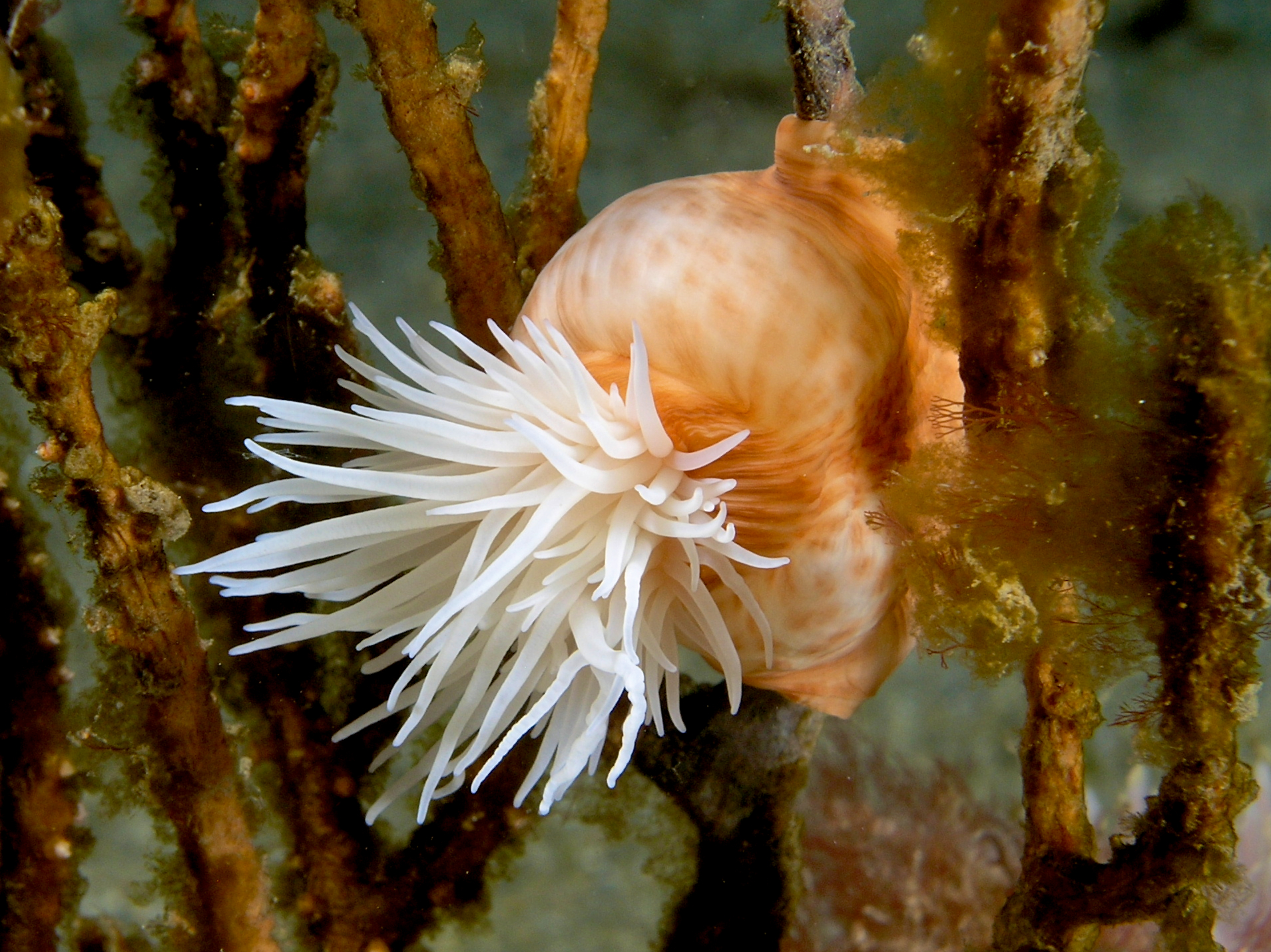 Amphianthus sp. (Colonial anemone). Suco Ulmera, subdistrict Bazartete, district Liquiçá, Timor-Leste